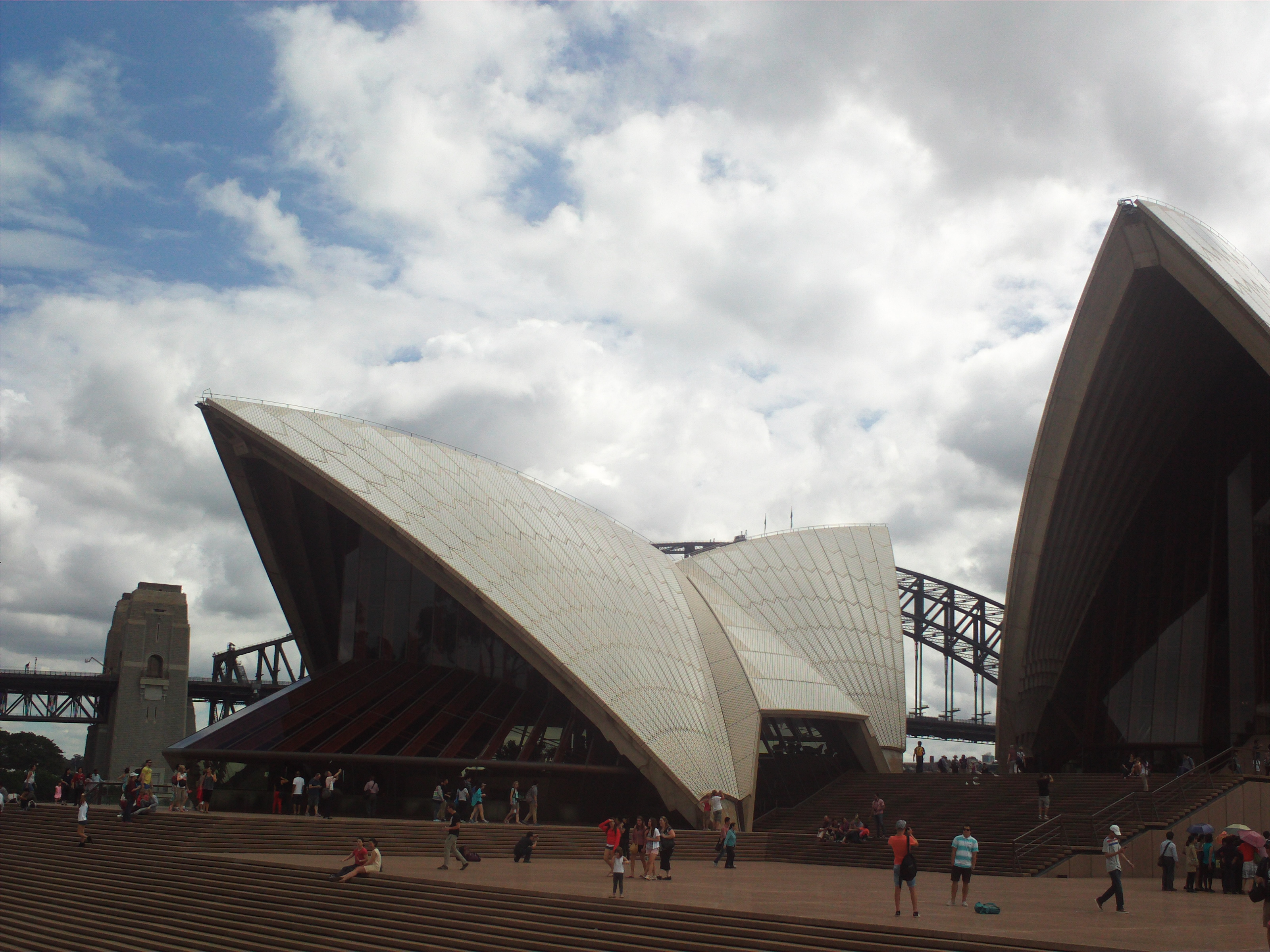 Entrance to Sydney's opera house.